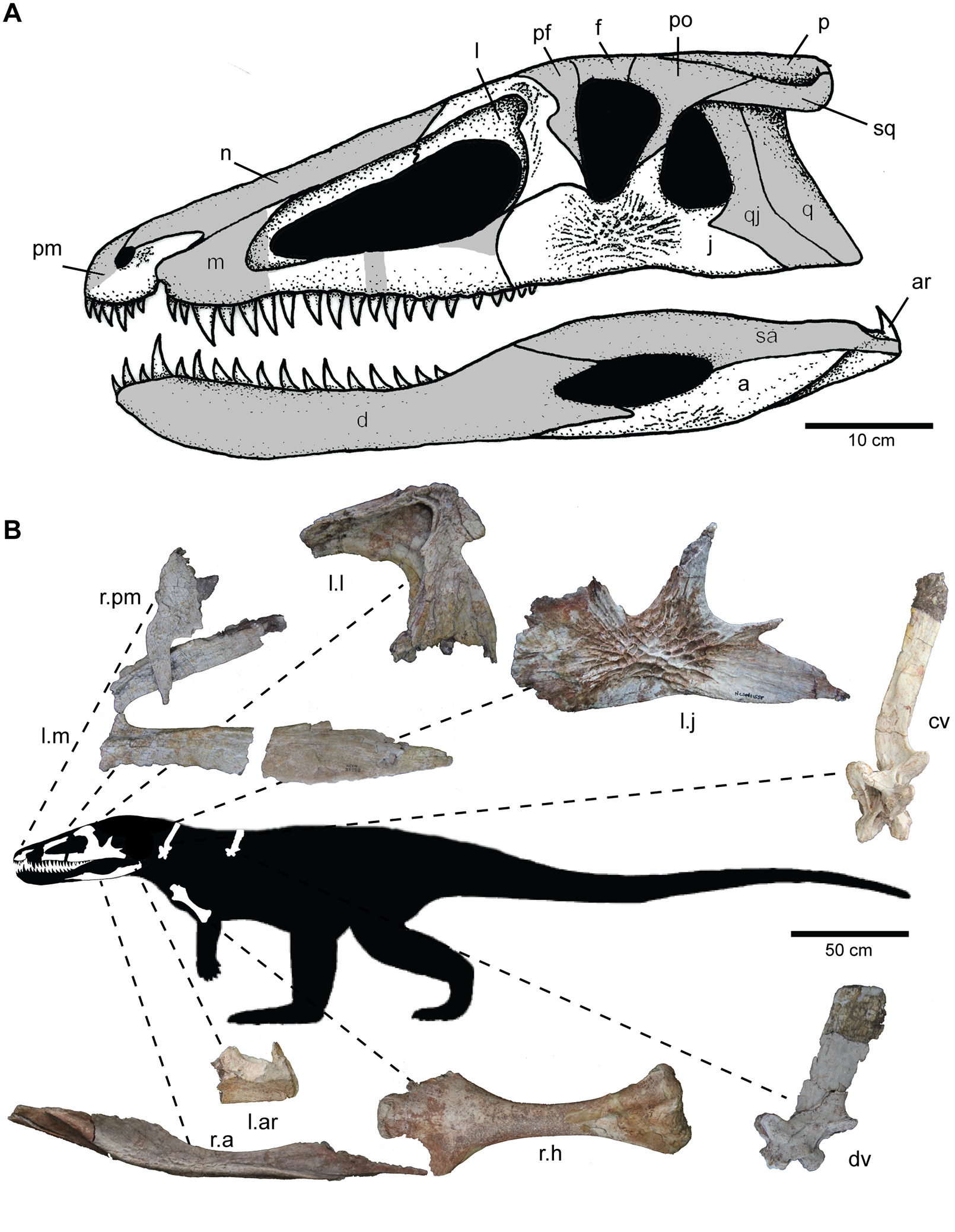 Skeletal reconstruction of Carnufex carolinensis. (A) Reconstruction of the skull of Carnufex carolinensis with preserved portions in white and inferred portions in gray. (B) Full body silhouette with preserved elements of NCSM 21558 highlighted. Abbreviations: a, angular; ar, articular; cv, cervical vertebra; d, dentary; dv, dorsal vertebra f, frontal; h, humerus; j, jugal; l, lacrimal; l., left; m, maxilla; n, nasal; p, parietal; pf, prefrontal; pm; premaxilla; po, postorbital; q, quadrate; qj, quadratojugal; r., right; sa, surangular; sq, squamosal.